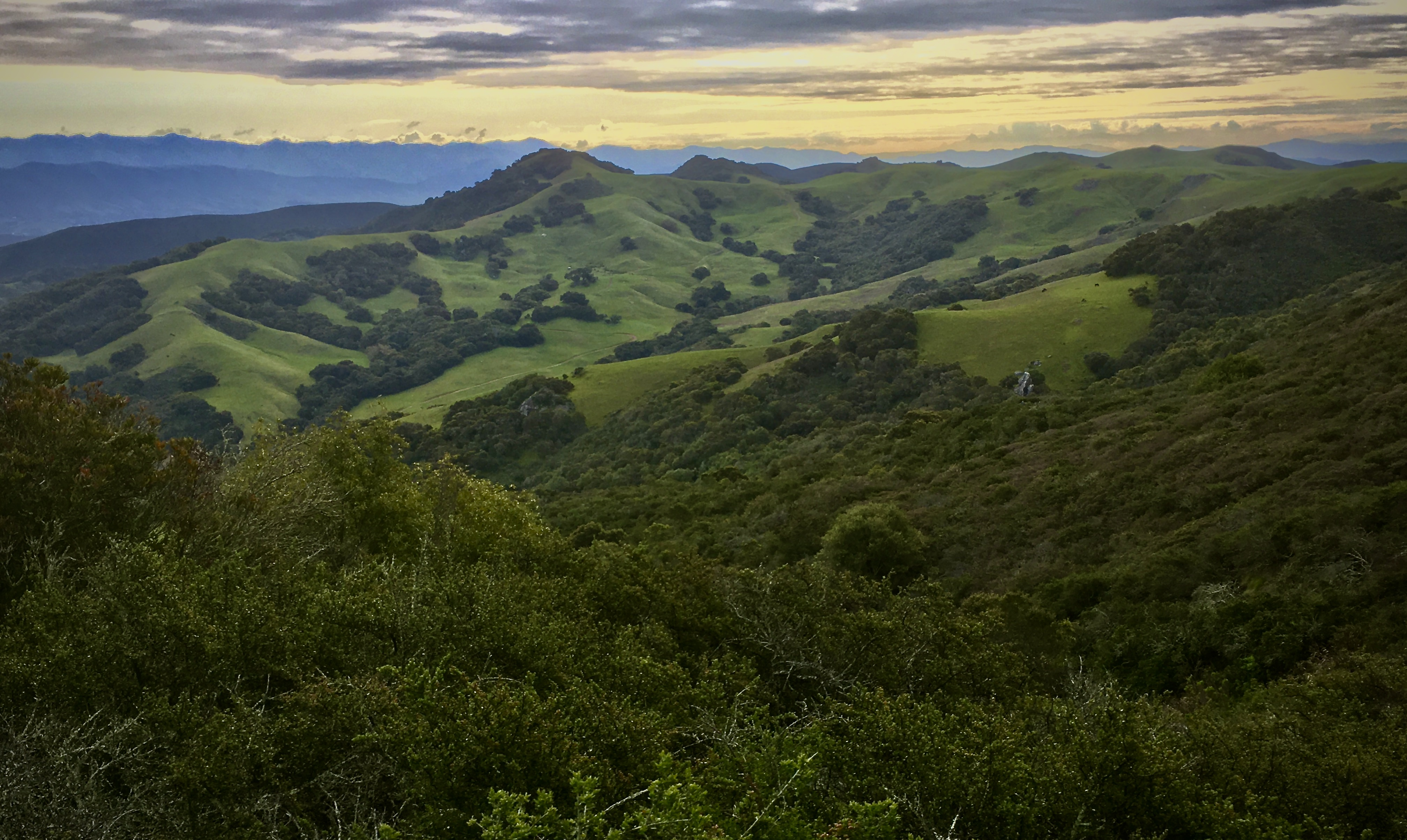 Irish Hills off Prefumo Canyon road